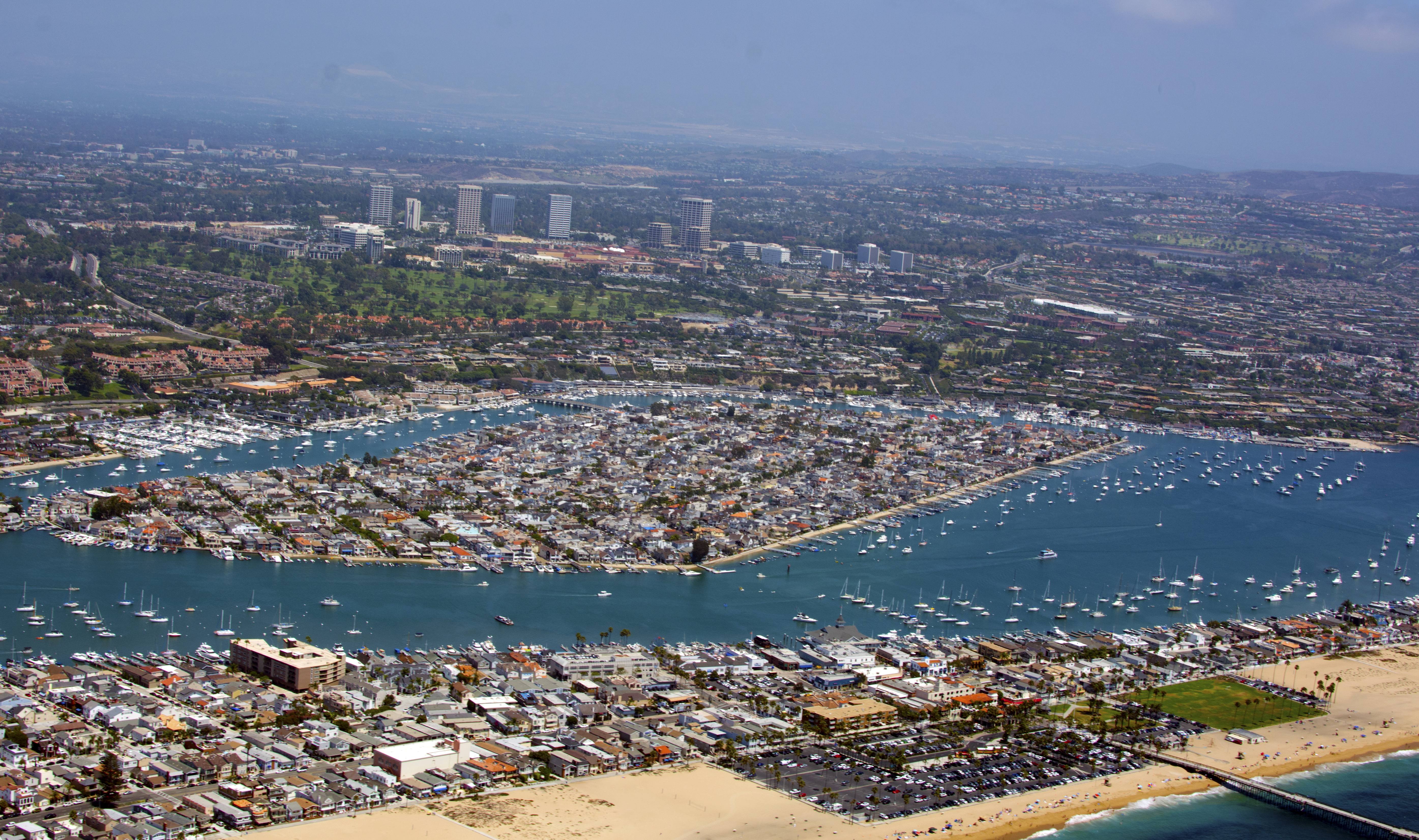 Balboa Island Aerial by D Ramey Logan